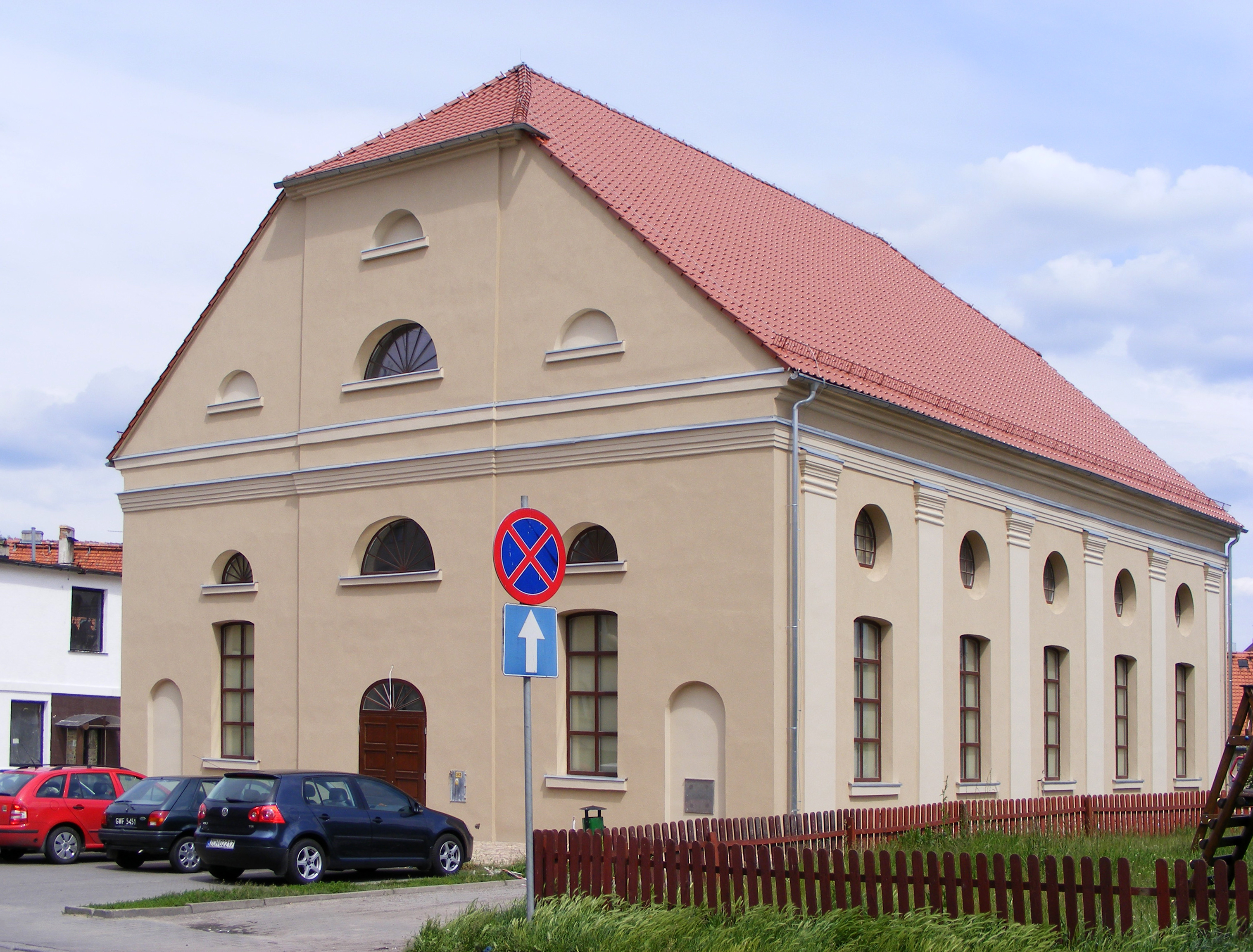 Synagoga w Międzyrzeczu